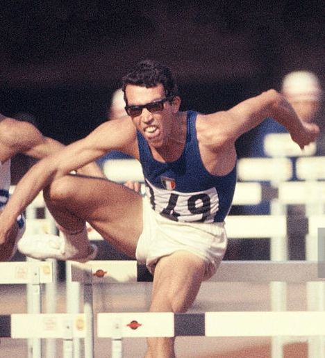 Giorgio Mazza competes in the Men's 110m Hurdles heat during the Tokyo Olympic at the National Stadium on October 17, 1964 in Tokyo, Japan